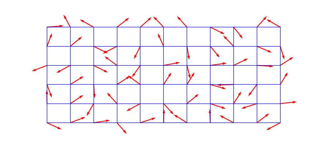 A grid of 2D gradient vectors for generating Perlin noise